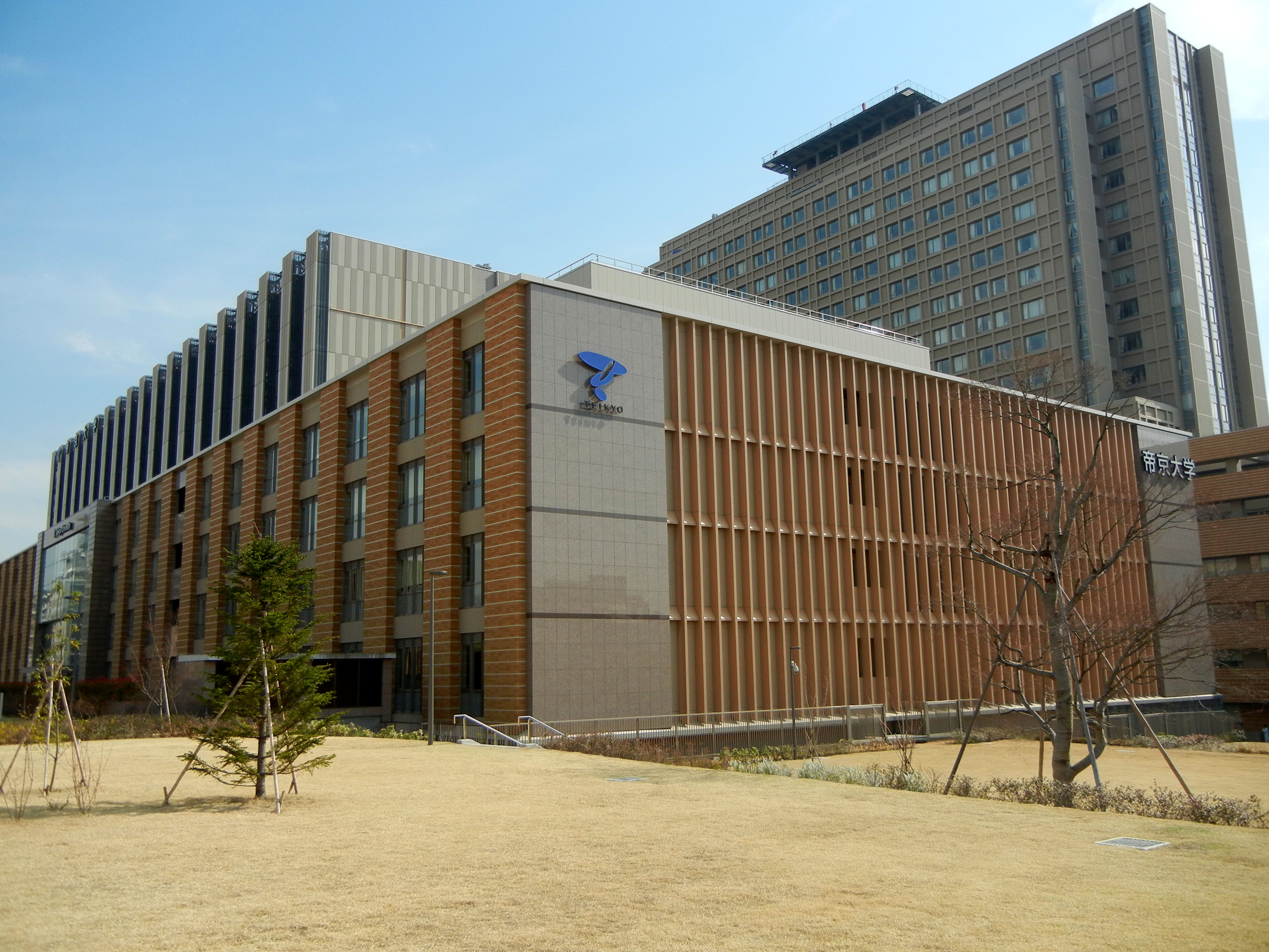 Teikyo University Itabashi Campus Main Building